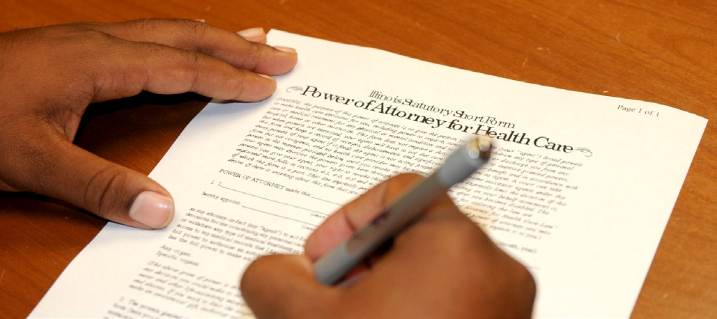 A blank power of attorney form (position of human subject's hands is for demonstration purposes only)